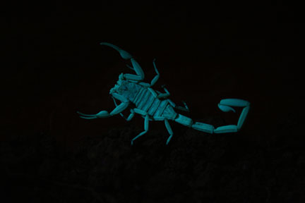 Arizona bark scorpion Centruroides sculpturatus glowing under ultraviolet light.